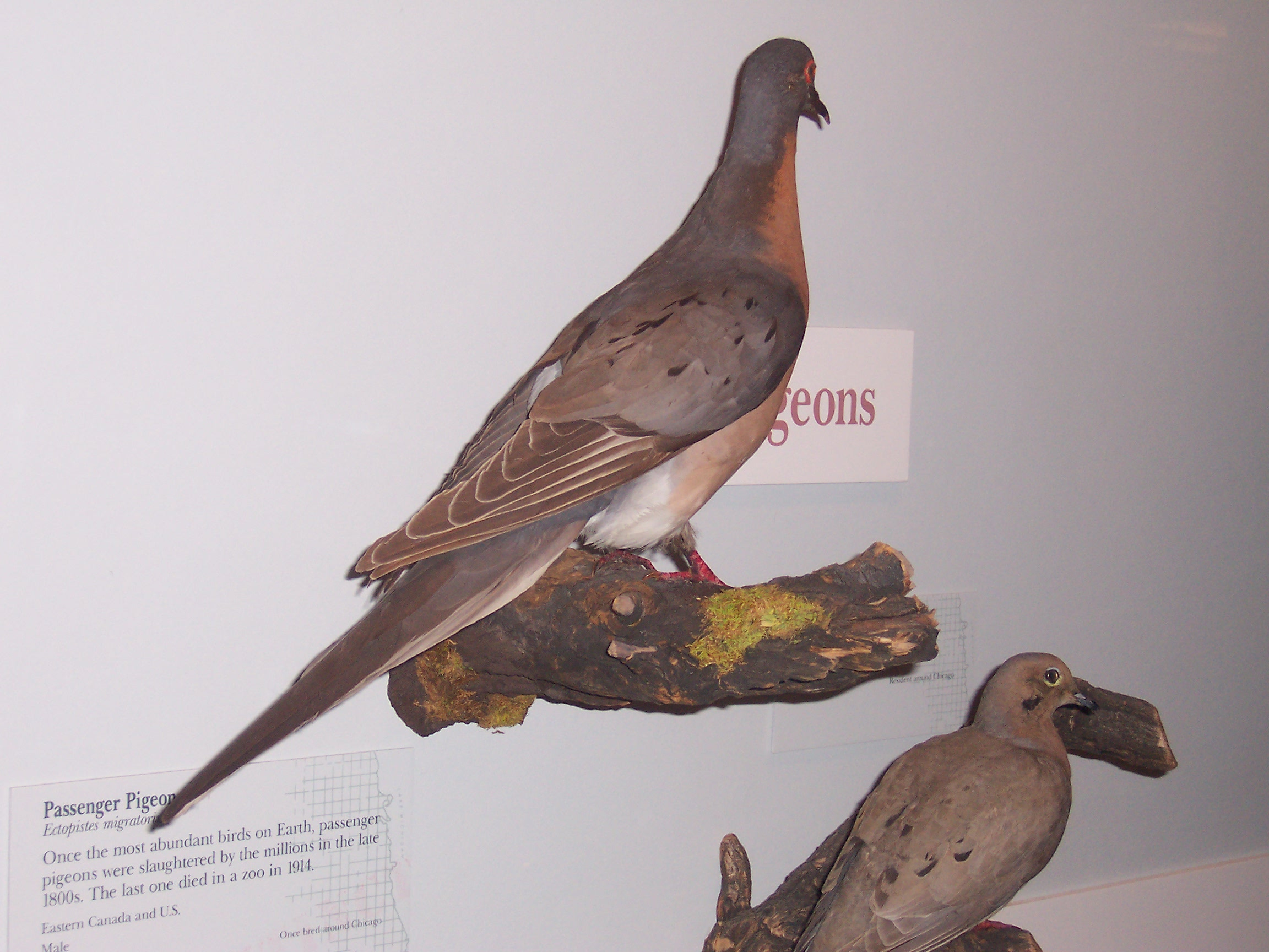 Passenger Pigeon,Field Museum